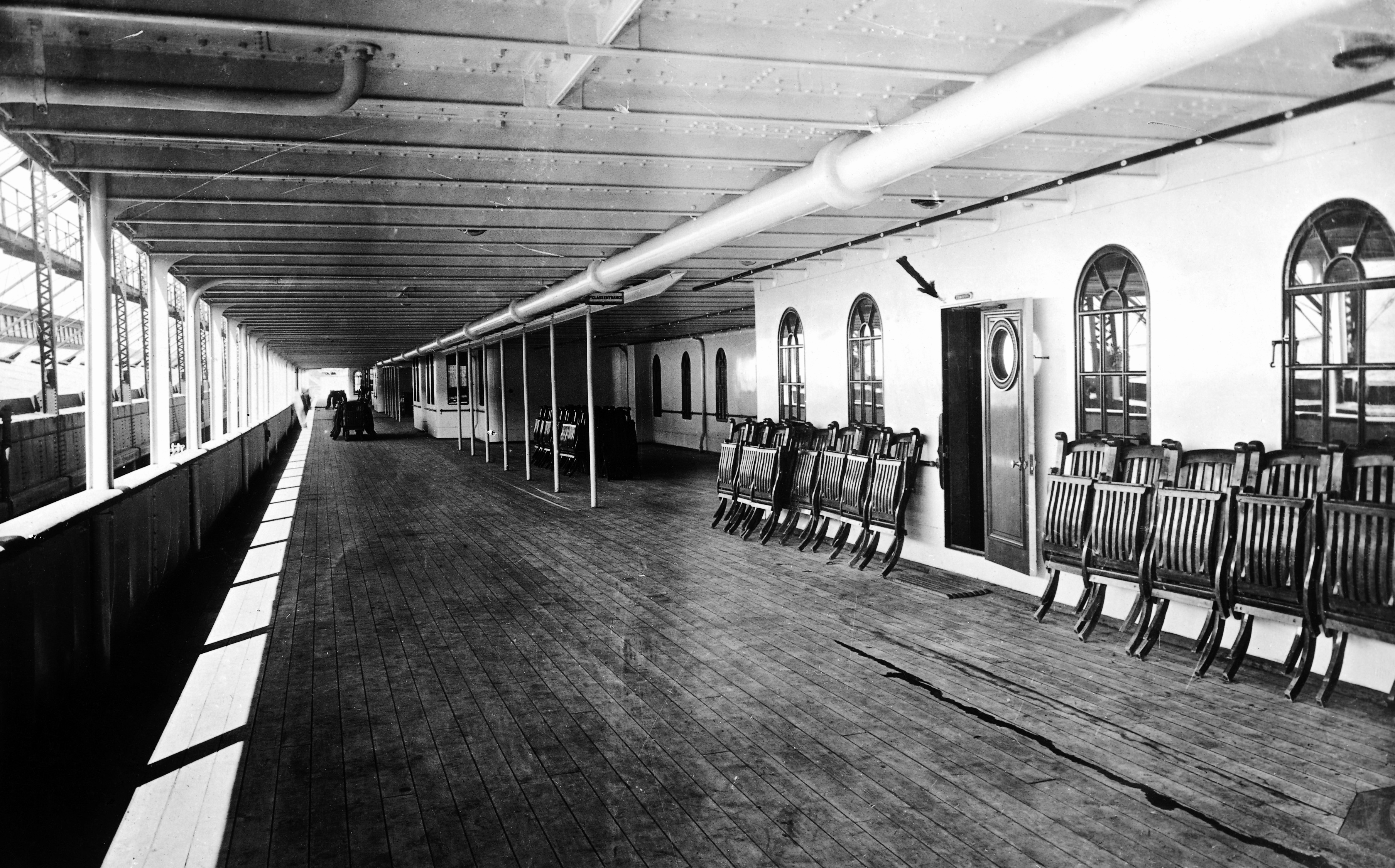 RMS Olympic A-Deck Promenade Deck. The arrow is pointing to the entry to the 1st Class Grand Staircase.